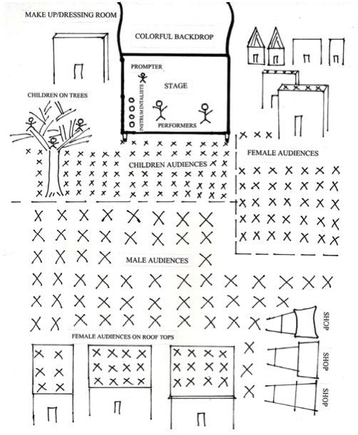 A spatial depiction of a typical Nautanki performance